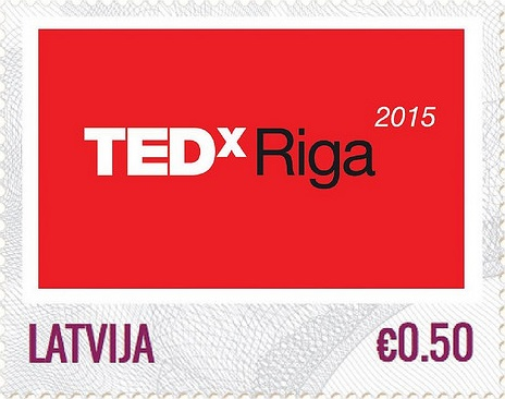 A stamp by Latvijas Pasts (Latvian Post) dedicated to TEDxRiga 2015.